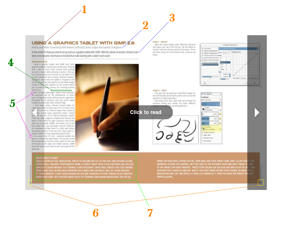 Two pages fron GIMP magazine Issue 2, december - 4 - 2012. CC-BY-SA. + numbers to make captions about typography & graphic design